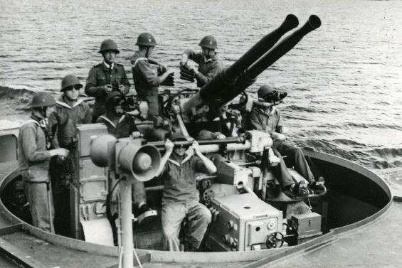 AA gun on HMS Gotland the Swedish cruiser HMS Gotland.